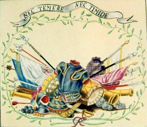 Fabrice Infantry Regimental Flag 2